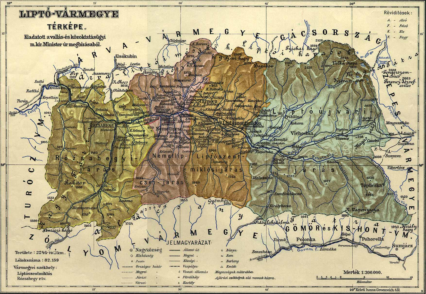 Administrative map of the county of Liptó in the Kingdom of Hungary